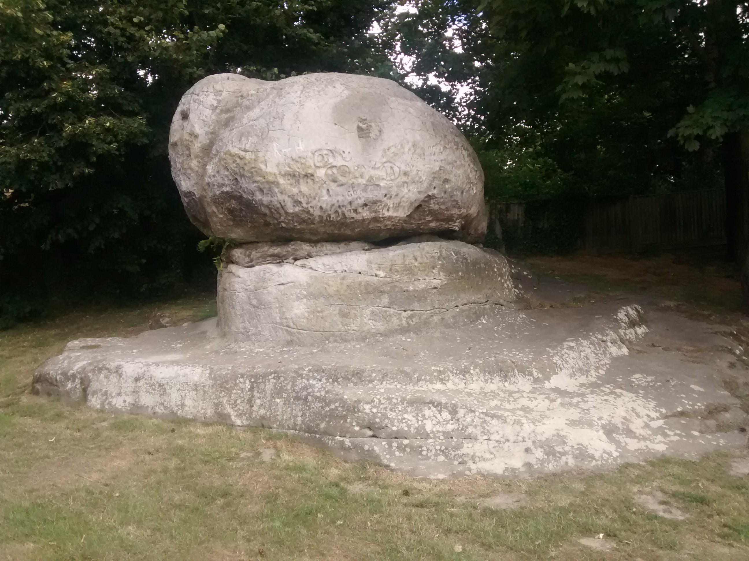 The Chiding Stone at Chiddingstone.